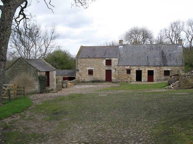 Cherryburn, the birthplace of Thomas Bewick. Thomas Bewick (1753-1828) is reckoned to be Northumberland's greatest artist, wood engraver and naturalist. 779867, the later home of the Bewick family, houses an exhibition on Bewick's life and work.